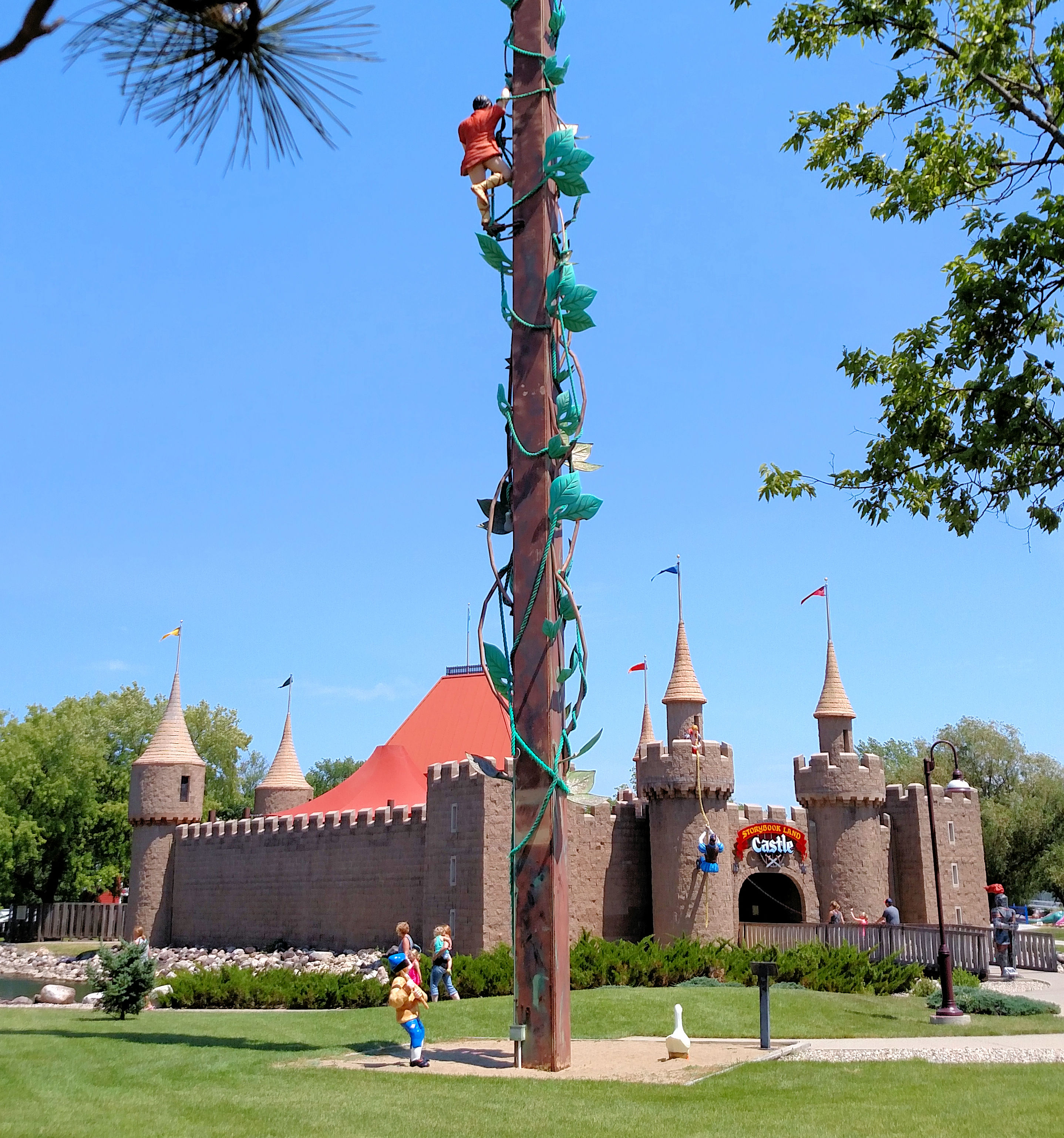 Storybookland Castle with Jack and the Beanstalk in the foreground - 2017.